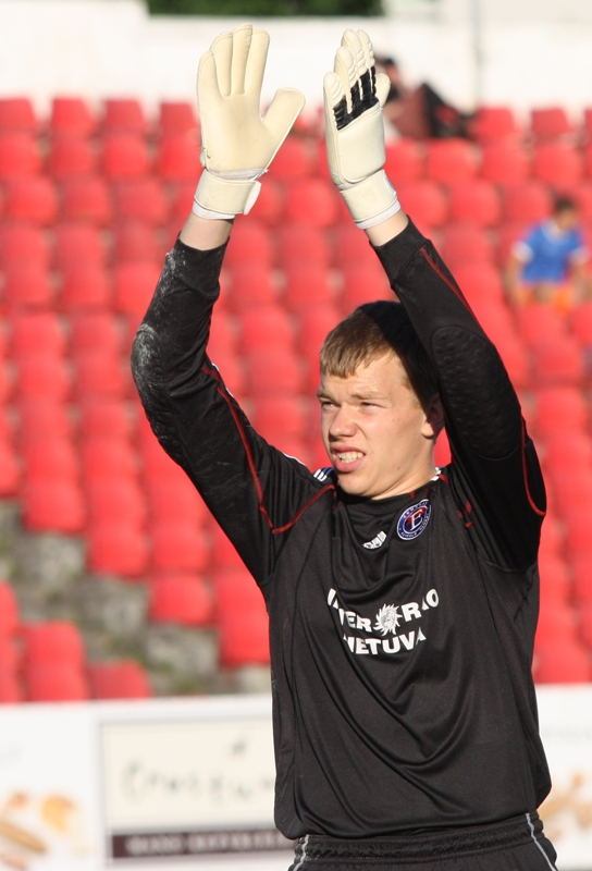 Vytautas Černiauskas playing for Ekranas Panevėžys